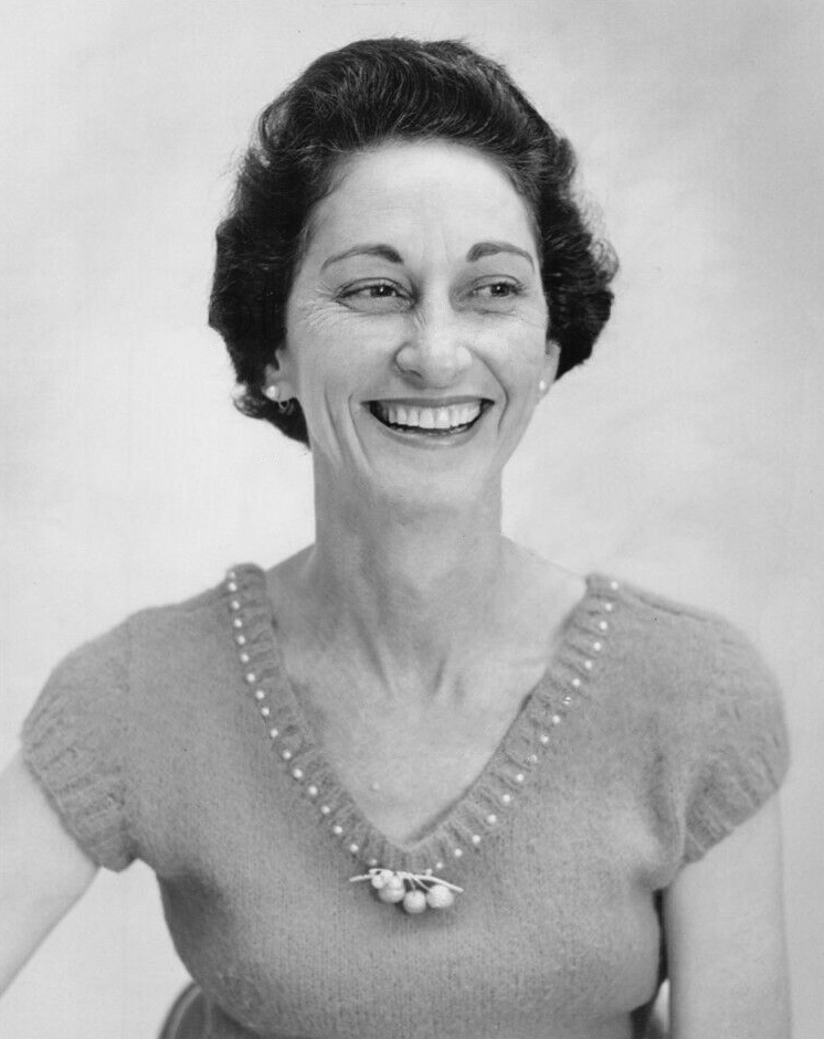 1967 Press Photo Dorothy Gillespie of Miami Florida